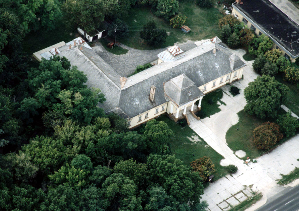 Palace - Örkény - Hungary - Europe